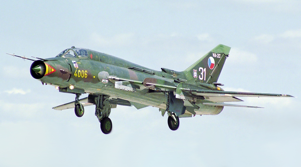 A close up view of the Sukhoi Su-22 landing at Fairford in 1995 / this Aircraft looking very much a part of the cold war period